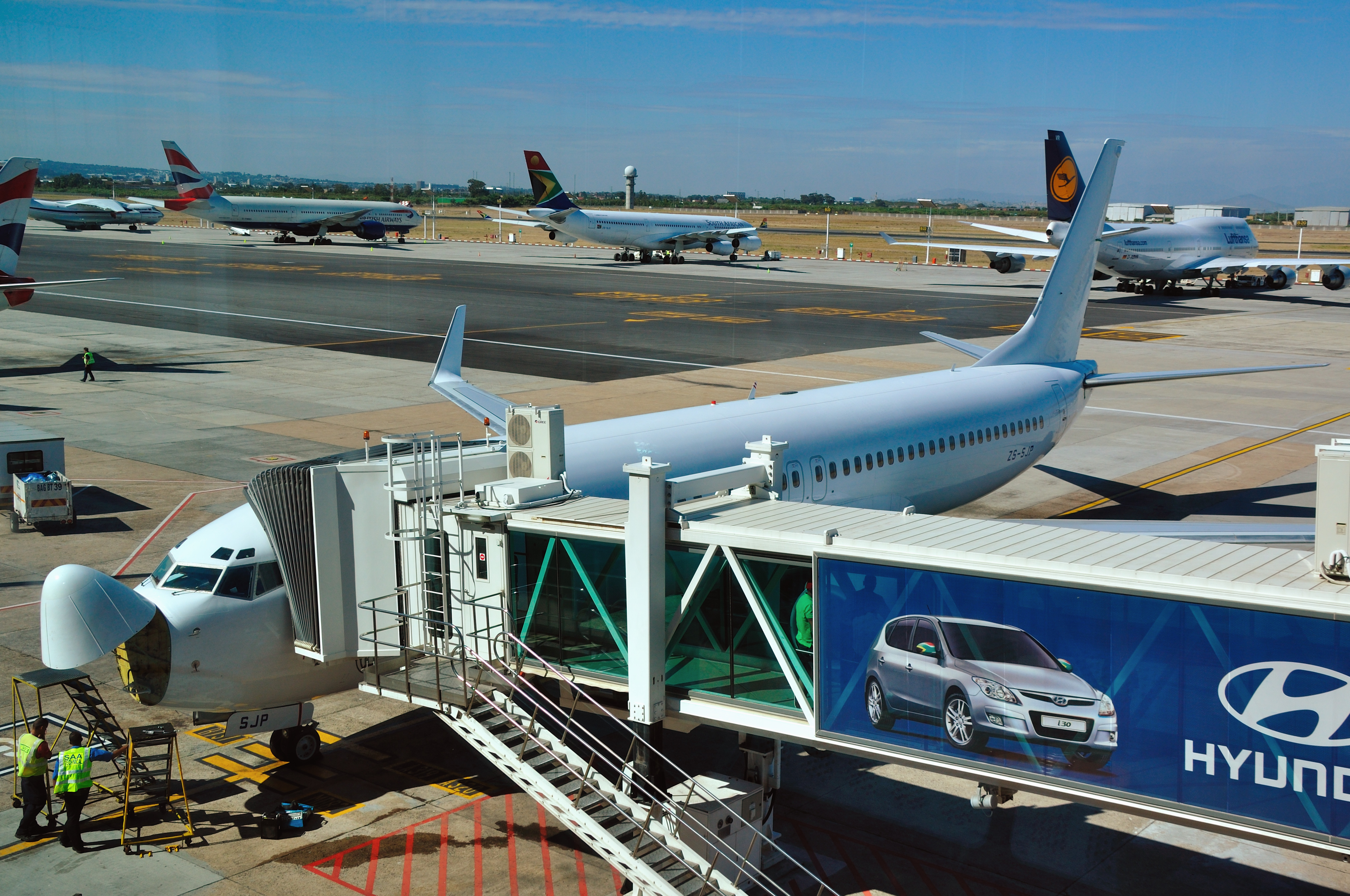 South Africa, spotting at Cape Town International Airport